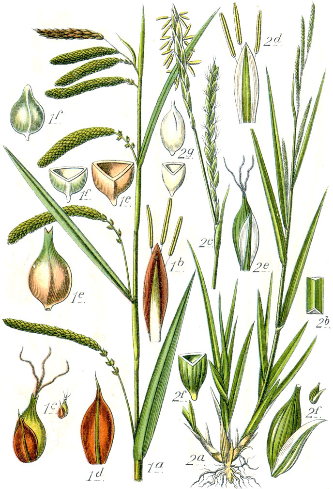 1. Carex pendula Huds. 2. Carex strigosa Huds. Original Caption 1. Grosse Segge, Carex pendula 2. Schlanke Segge, C. strigosa